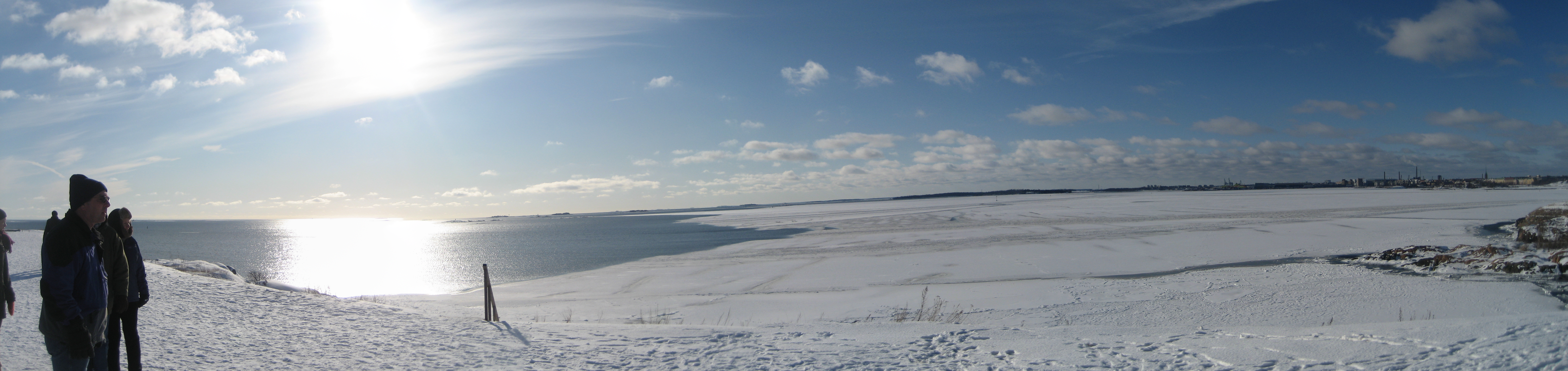 View from one of the Suomenlinna islands facing west and a bit north taken at about 1415 on 28 Feb 2009. Parts of Helsinki can be seen on the rightmost portion of the image. The Baltic right-of-center is frozen over, left-of-center is liquid water. This is one direction the Russian Empire would potentially expect enemy fleets to approach from; directly behind photographer is a bunker with two artillery pieces oriented accordingly.